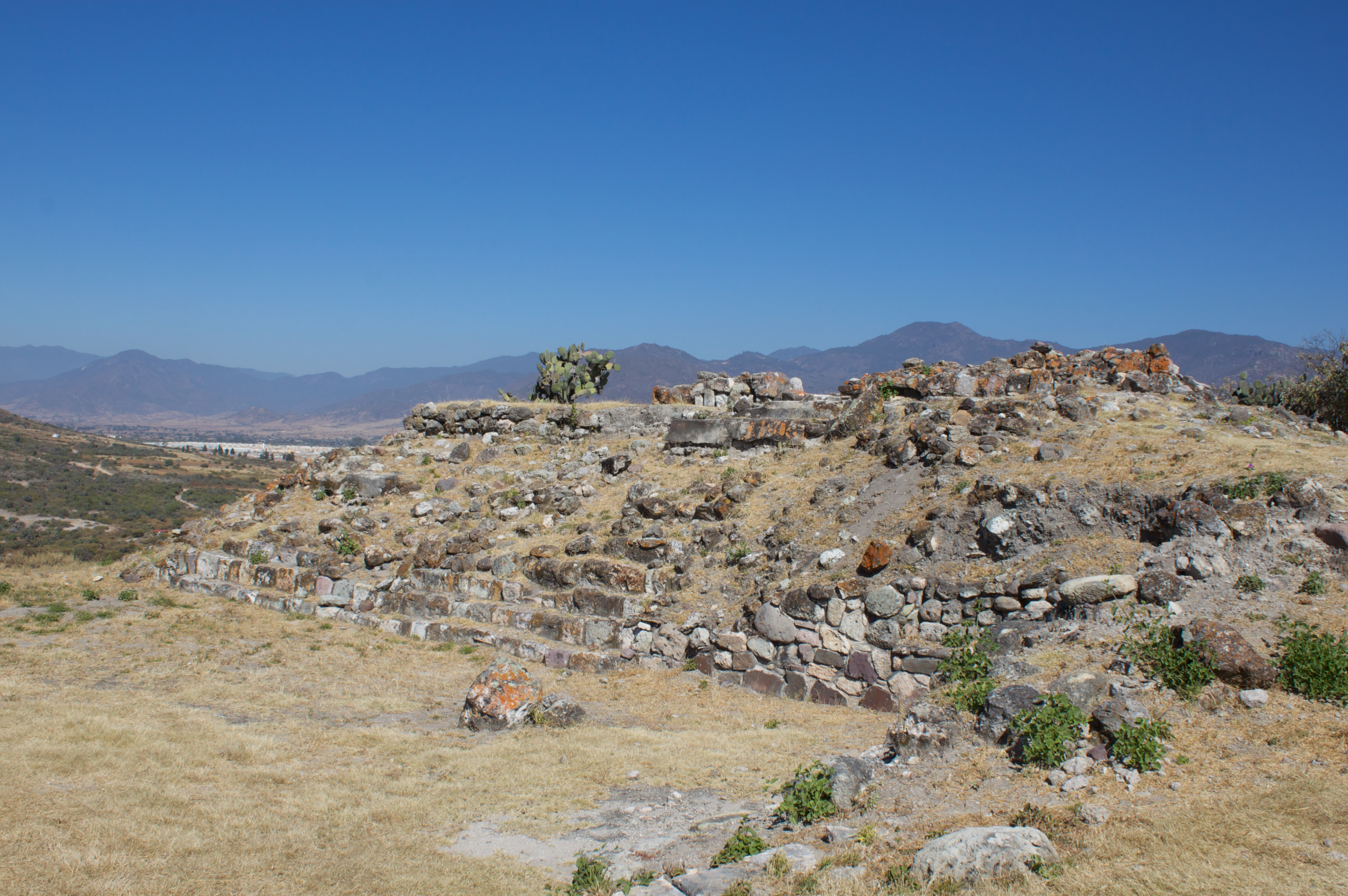 Yagul Edifice U